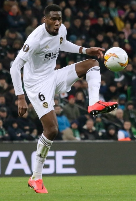 Geoffrey Kondogbia with Valencia CF in an Europa League game against FC Krasnodar.